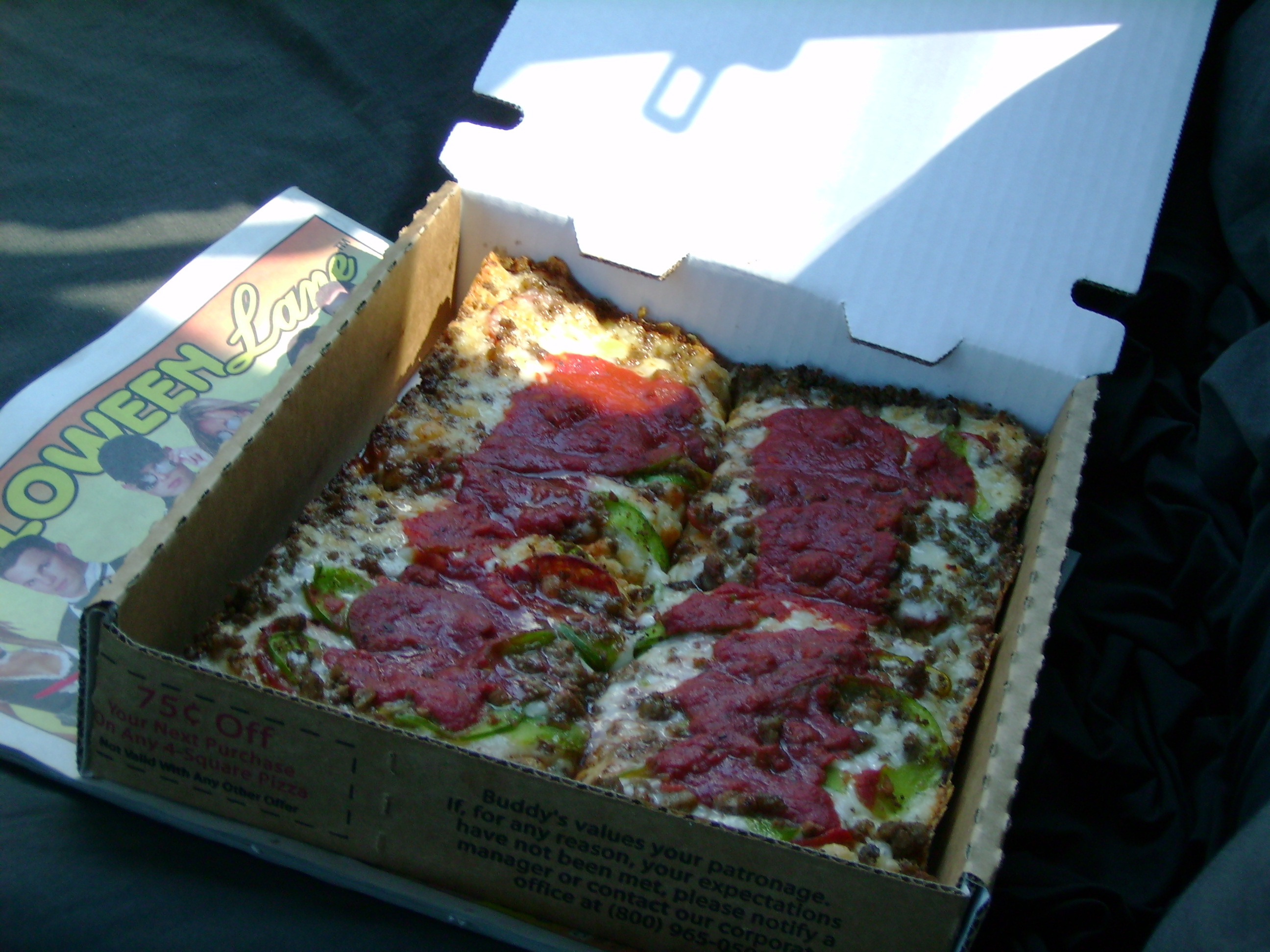 From Buddy's Pizza, original Conant Ave.(Hamtrack border) location in Detroit, Michigan USA. Pizza had pepperoni(baked under brick cheese), green peppers and hamburger. This was a small(4 slices), Large is 8 slices.